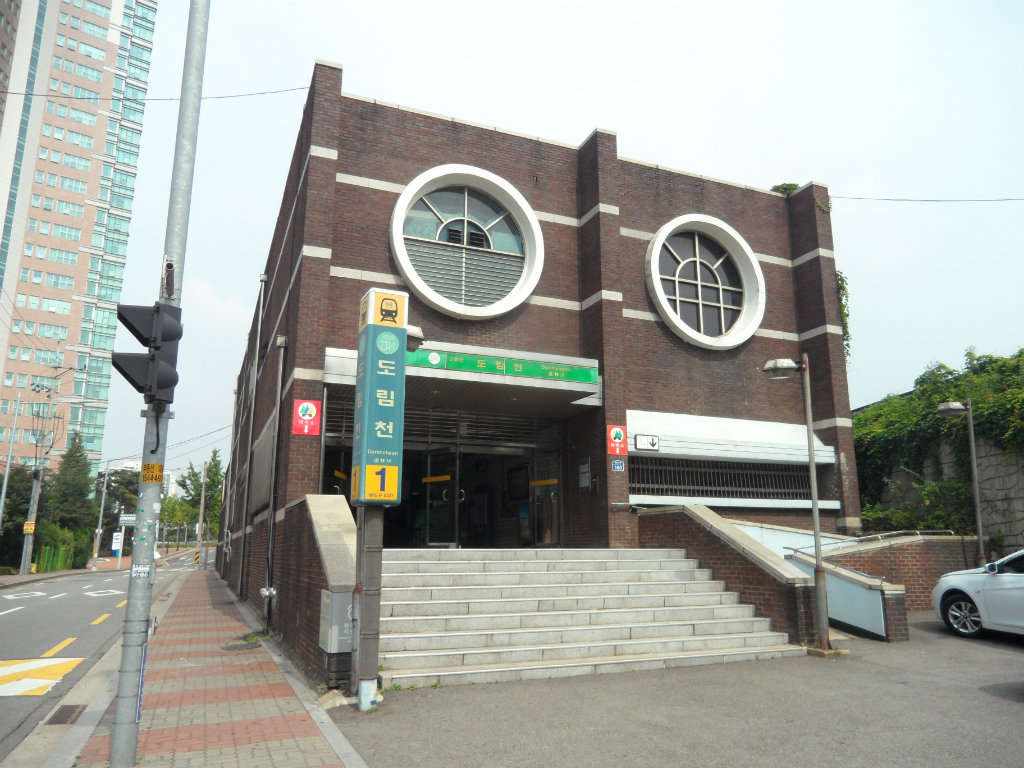 Exit of Dorimcheon Station